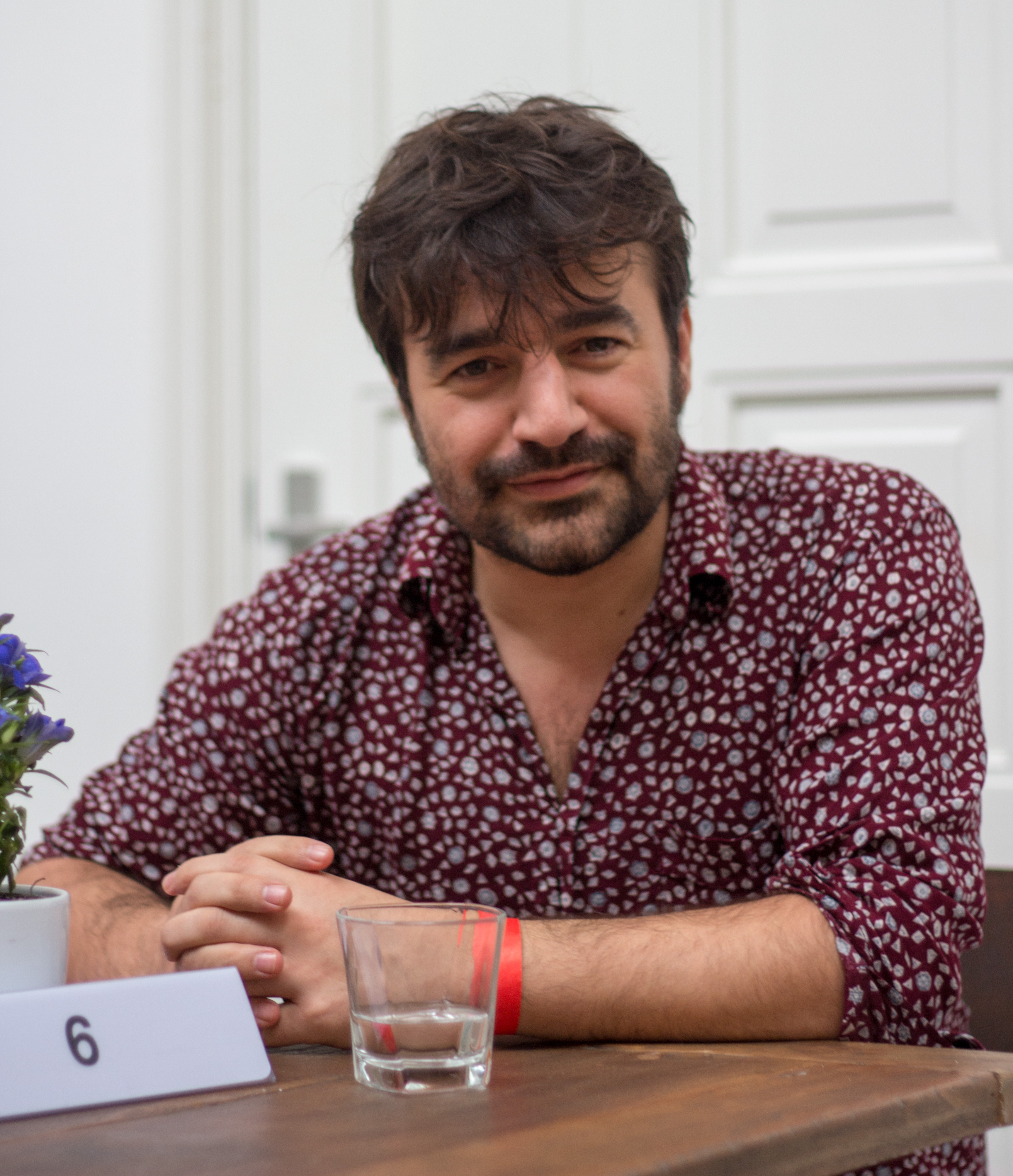 Bleri Lleshi at Brainwash Festivaal 2015